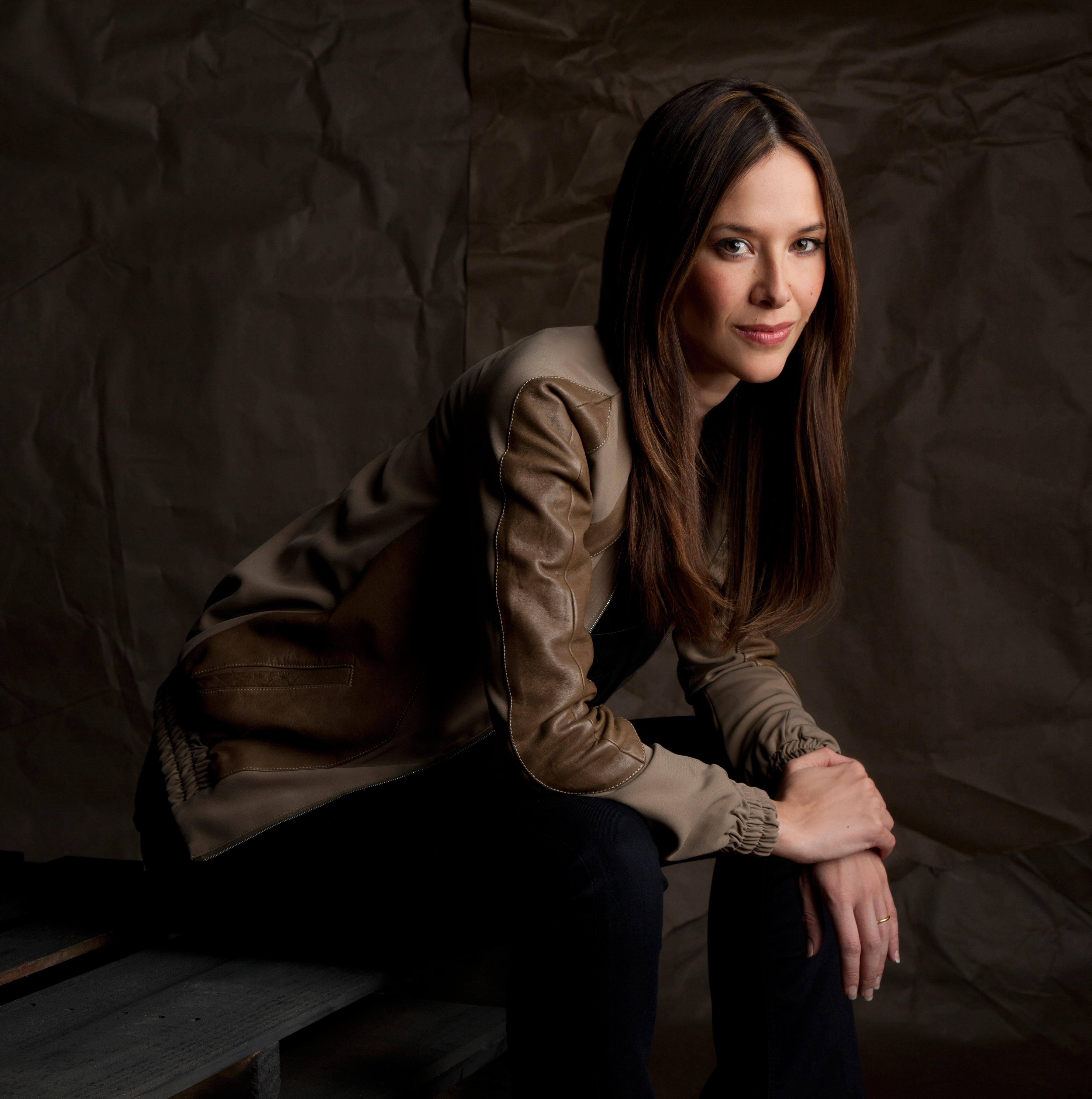 Ubisoft Toronto Managing Director Jade Raymond (Feb 2012)